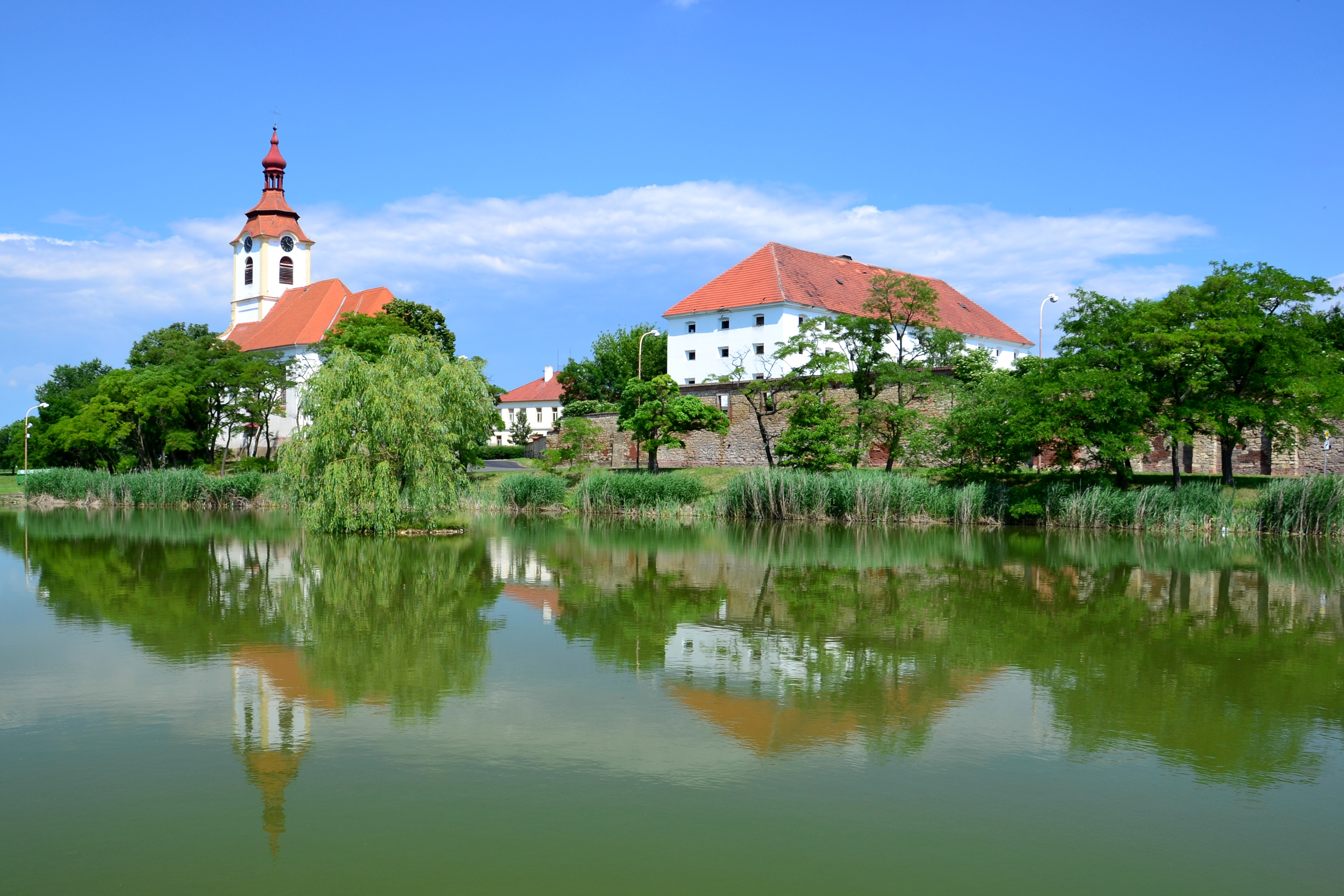 Church of St. Procope and granary in the farm yard in Blažim